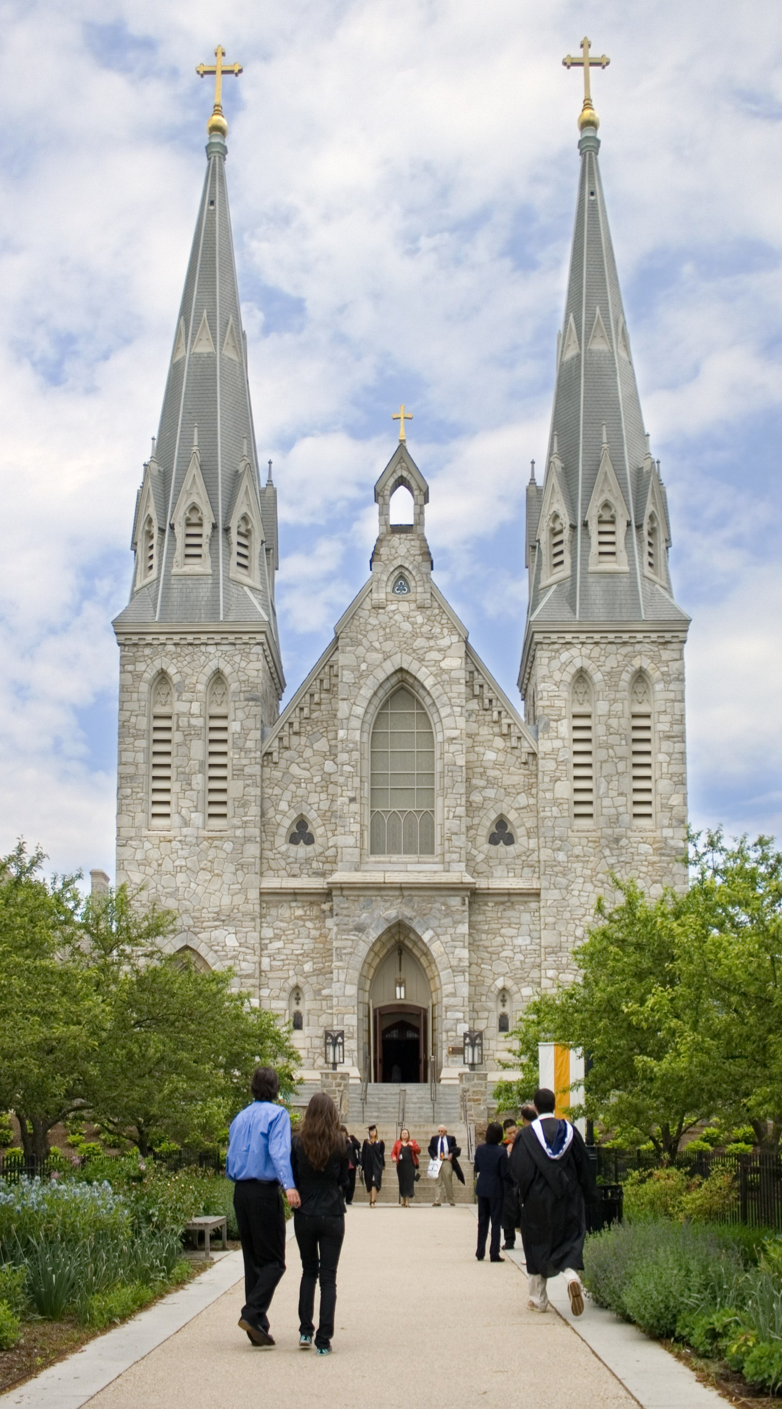 The St. Thomas of Villanova Church during the 2008 Baccalaureate. 3 shot HDR, ISO200, polarizing filter, Rebel XTi with EF-S 18-55 lens, f3.5